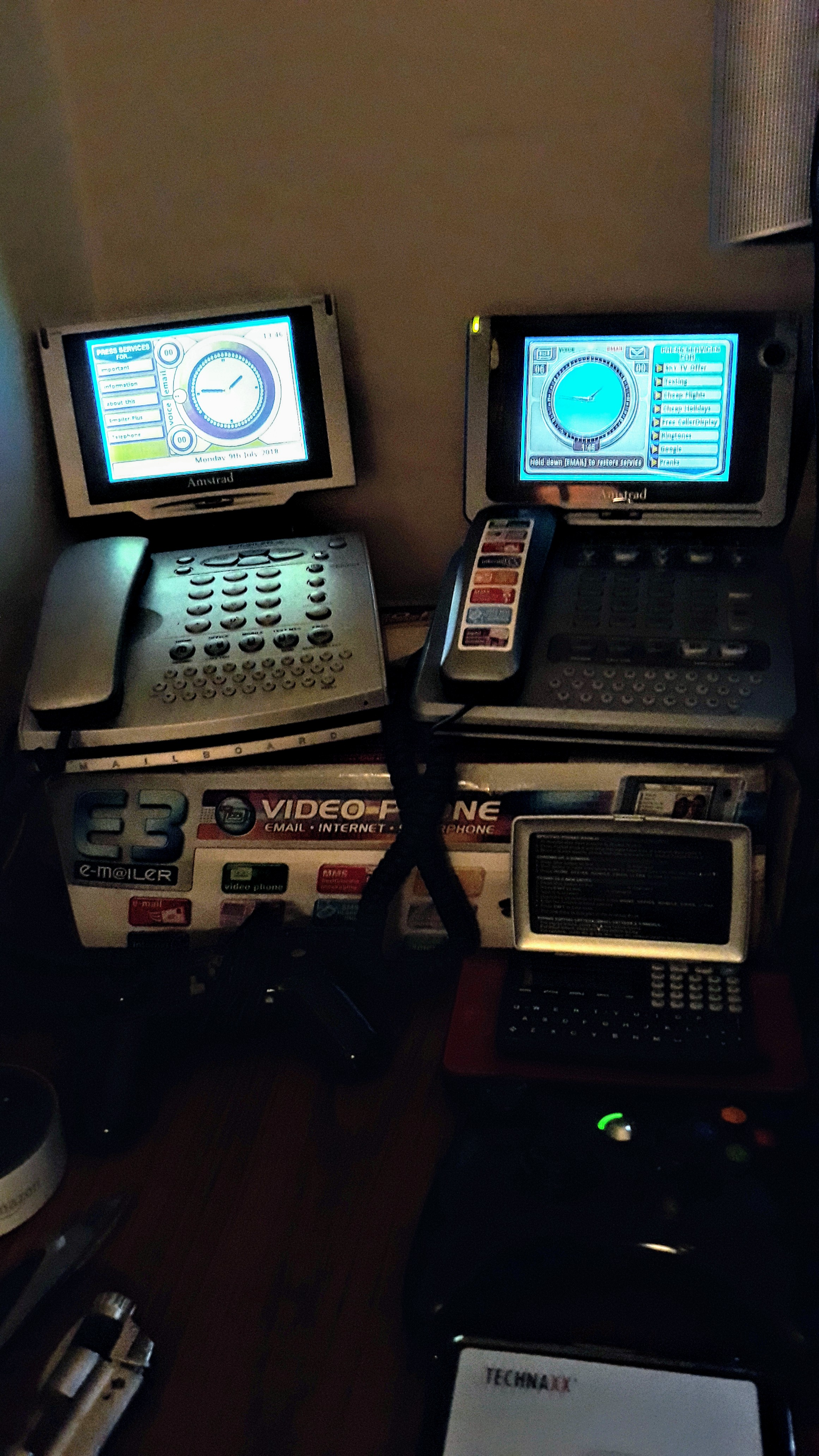 These are the Amstrad E- m@iler Plus and E3 Superphone.